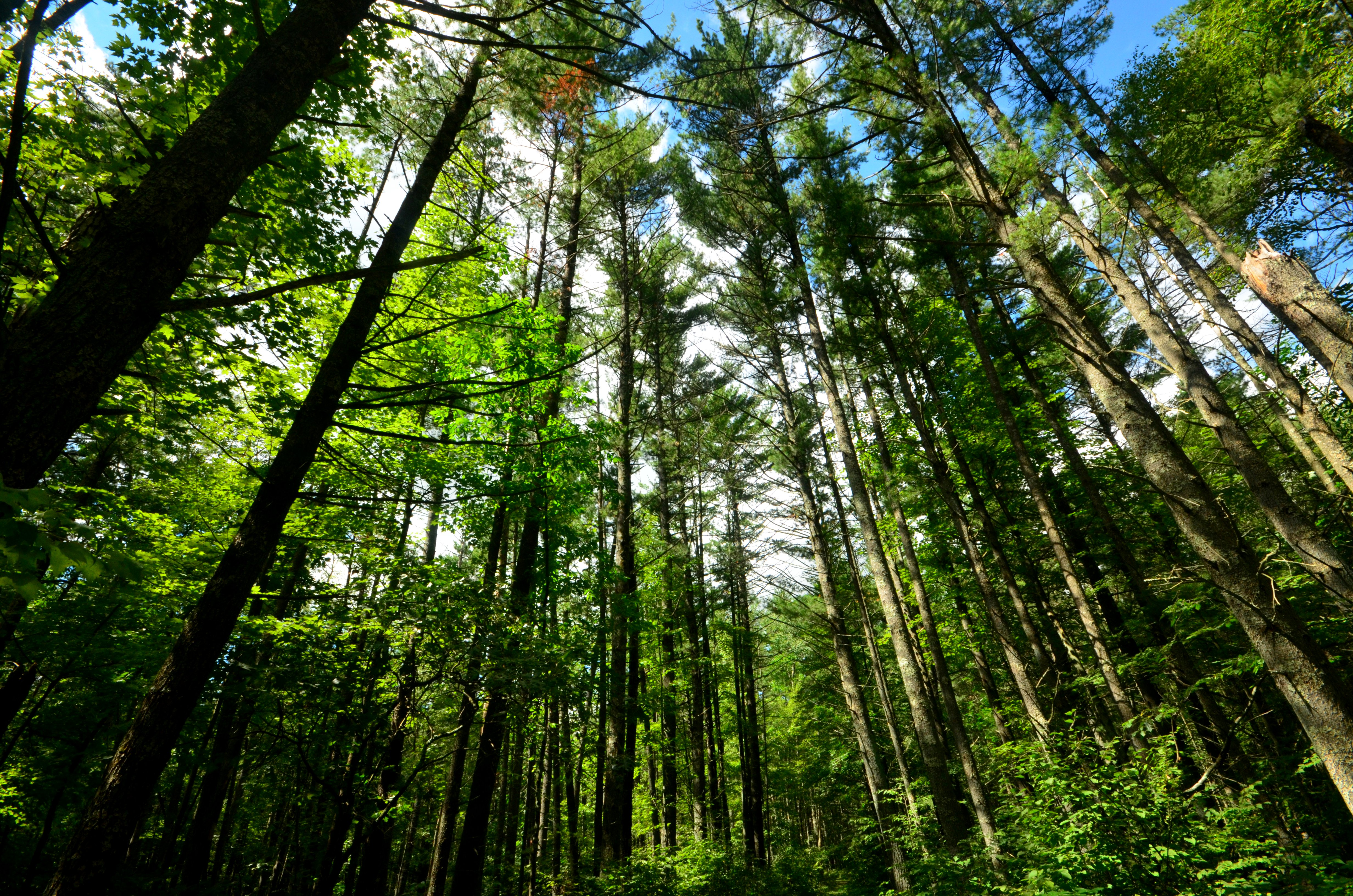 Krueger Pines Wisconsin State Natural Area #20 Lincoln County